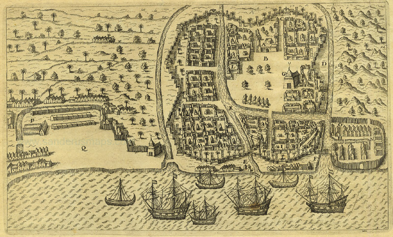 map of Bantam by de Bry J.Th. From: Indiae Orientalis Navigationes. Frankfurt, 1598-1613. (Small Voyages). Basa Sunda: Peta Banten karya de Bry J. Th. Tina: Indiae Orientalis Navigationes. Frankfurt, 1598-1613. (Small Voyages).